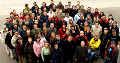 Croatian Academic and Research Network